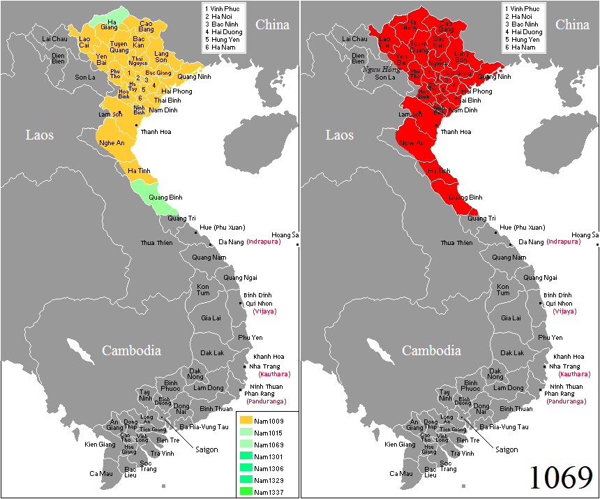 Vietnam in 1069.